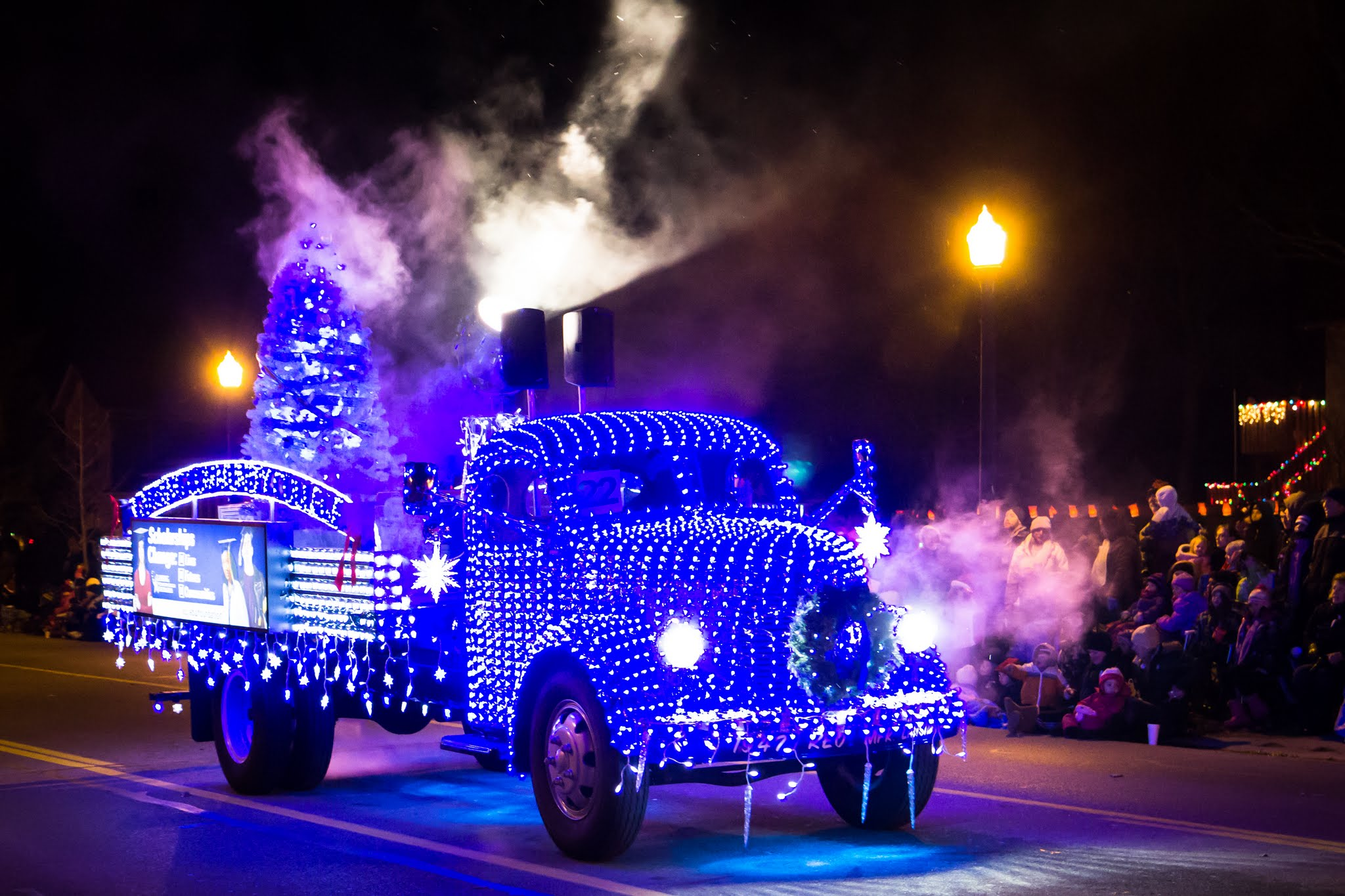 Winner of the 2012 Fantasy of Lights Parade